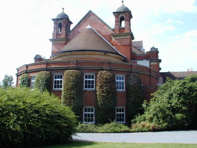 The University of Reading Great Hall, on the University's London Road Campus. For more information see the Wikipedia article London Road Campus.